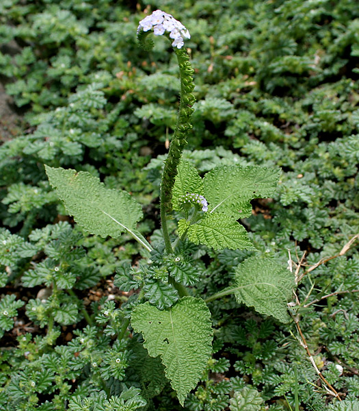 Heliotropium indicum (syn. Heliophytum indicum, Heliotropium parviflorum, Tiaridium indicum) - Indian turnsole, Hatisurh, in Gujarati 'Haathi sundh', Indian Heliotrope, Erysipelas plant, Scorpion weed, Wild clary • Hindi: Siriyari, Hatishura • Manipuri: Leihenbi • Marathi: Bhurundi, Vinchavi • Tamil: Thel - Kodukku • Malayalam: Thekkada • Telugu: Nagadanthi • Kannada: Chelukondi gida • Bengali: Hasti-sura • Oriya: Hati-sand • Konkani: Ajeru - at Pocharam lake, Andhra Pradesh, India.